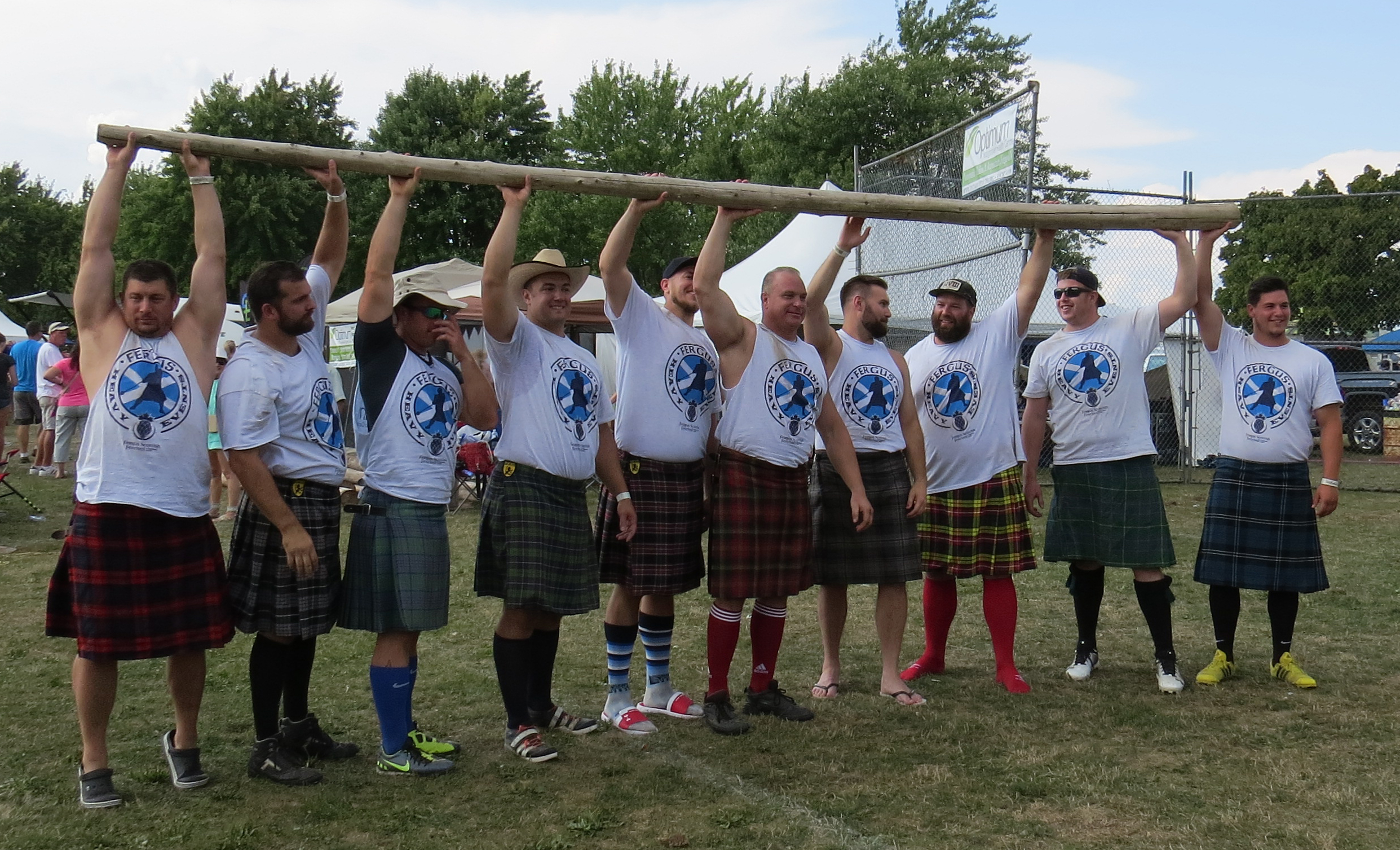 Heavy event competitors at the Fergus Scottish Festival and Highland Games, 2018